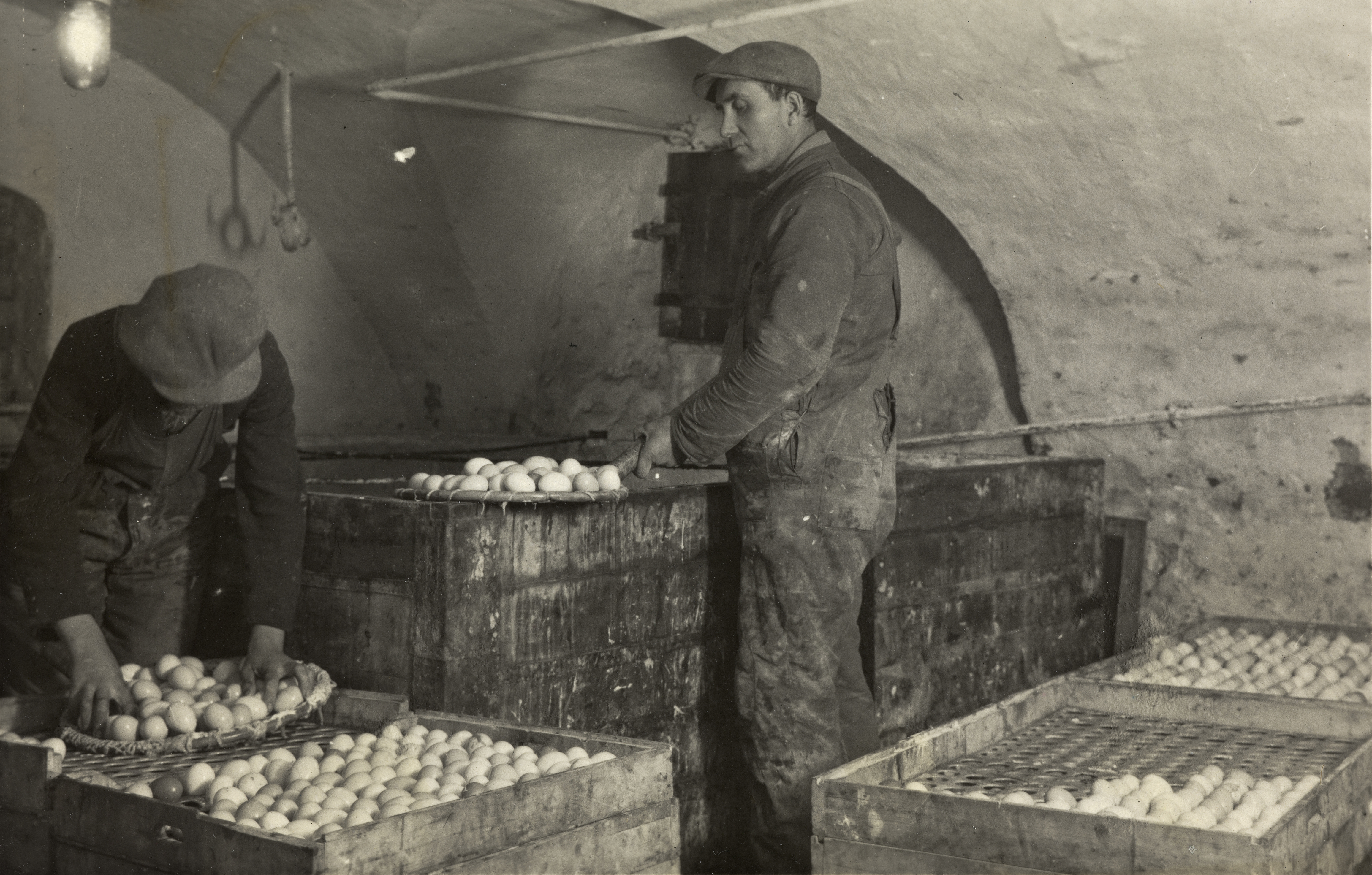 Beskrivelse / Description: Postkort / postcard. Dato / Date: ca. 1920 Sted / Place: Sør-Trøndelag Fotograf / Photographer: ukjent / unknown Utgiver / Publisher: ukjent / unknown Digital kopi av original / Digital copy of original: s/h postkort, sølvgelatin Eier / Owner Institution: Nasjonalbiblioteket / National Library of Norway Lenke / Link: Bildesignatur / Image Number: blds_06715